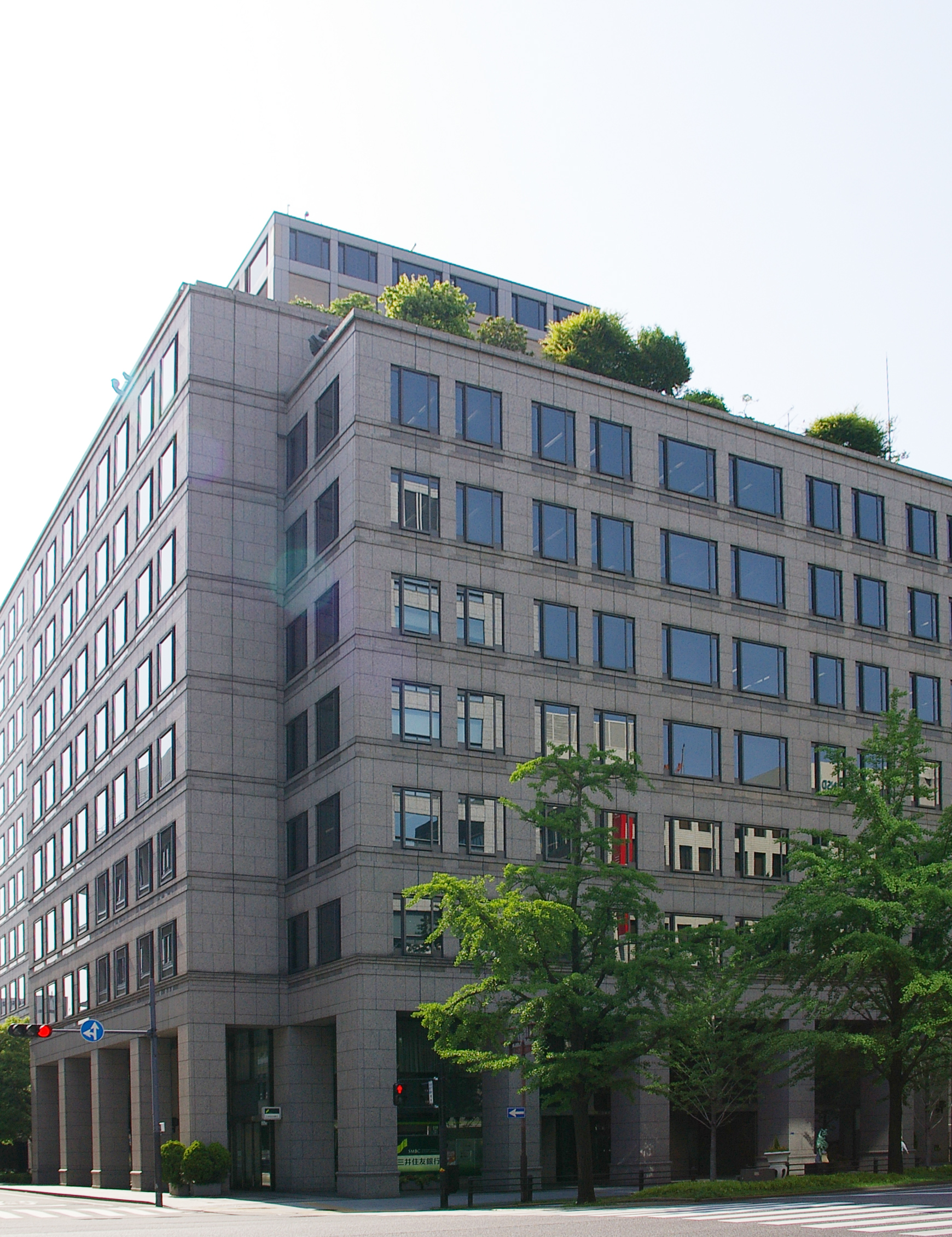 Takeda Midosuji Building, the head office of Takeda Pharmaceutical Company, in Chuo-ku, Osaka, Japan. Designed by Nikken Sekkei, built in November 1991 by the joint venture of Obayashi Corporation and Takenaka Corporation. Developed by Daiwa Estate (now Takeda Estate), a subsidiary of Takeda. It received an Honourable Mention at the 13th Osaka Urban Scenery and Architectural Design Award in 1993. This photo has been adjusted for perspective distortions with Adobe Photoshop CS.